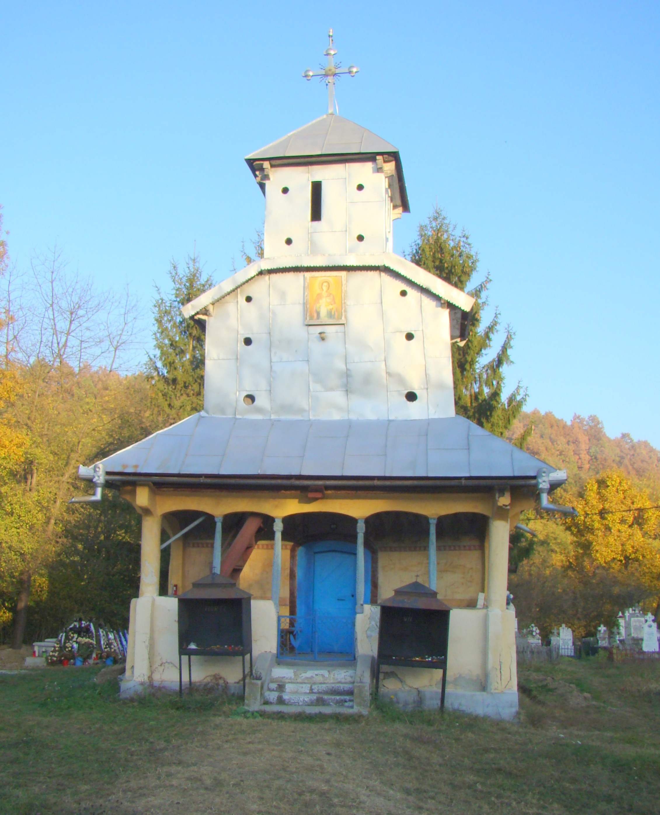 Wooden church in Băzăvani, Gorj county, Romania